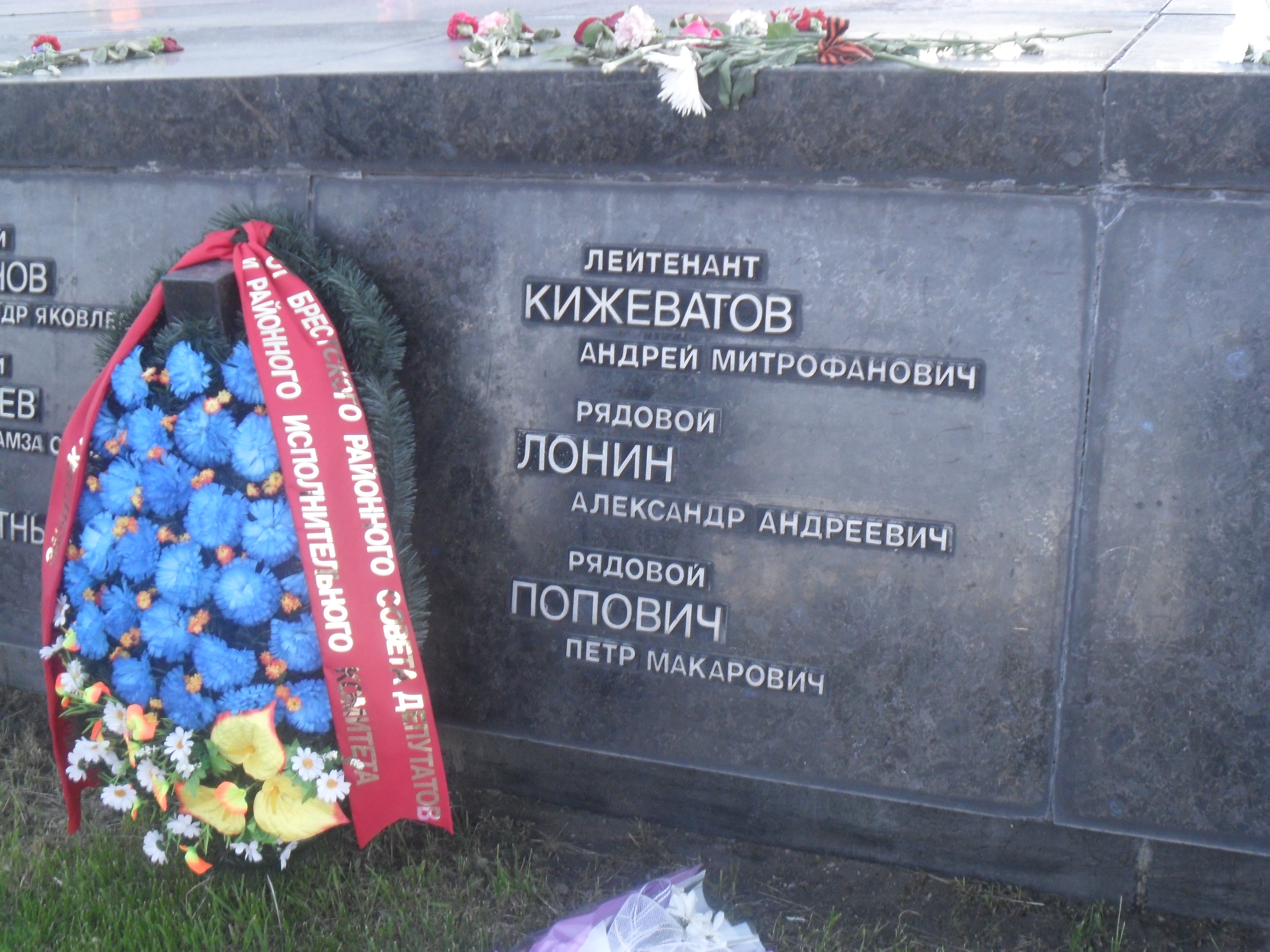 A sign with the name of Hero of the Soviet Union, Lieutenant Andrew Kizhevatova on graves participants Brest Fortress Square ceremonies.